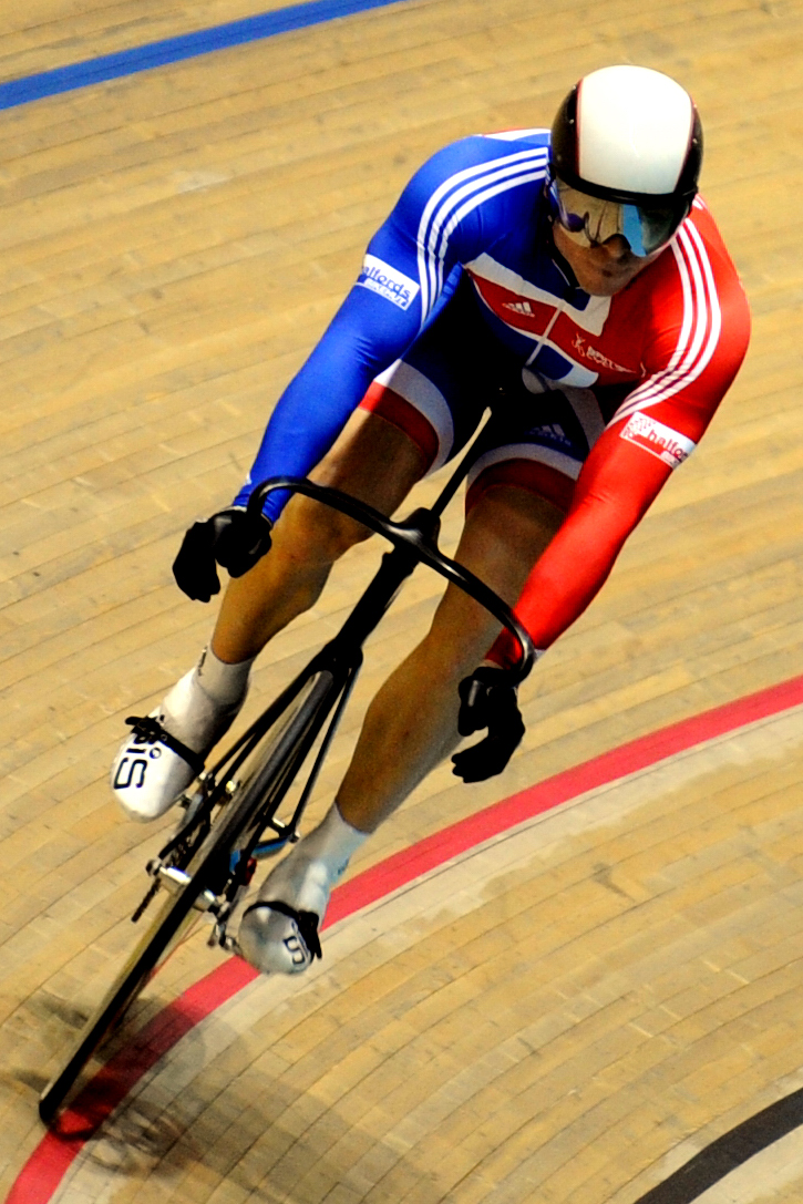 Chris Hoy coasting after battling Bos